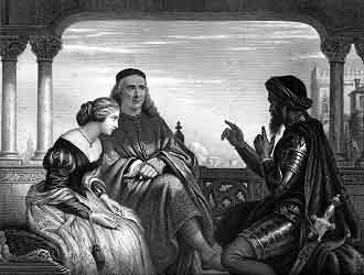 Othello Relating His Adventures - Steel engraving, approximately 7.5 x 10 inches